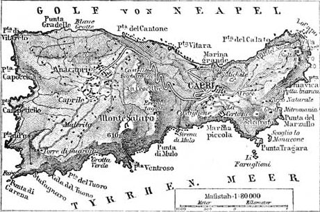 Map of Capri